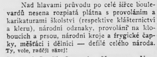 "Ty vole raději sázej!" (You, idiot, should rather typeset!") - a joking remark, probably left on a newspage by a typesetter and addressed to a corrector. It apparently got unnoticed and found its way to the newspaper.